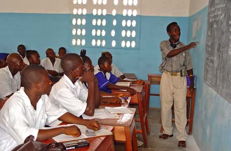 A class in a newly rebuilt secondary school in Pendembu Sierra Leone